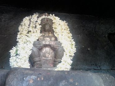 Avathaarathraya Hanuman Navabrindhavan- I have clicked this photo during my visit using my mobile